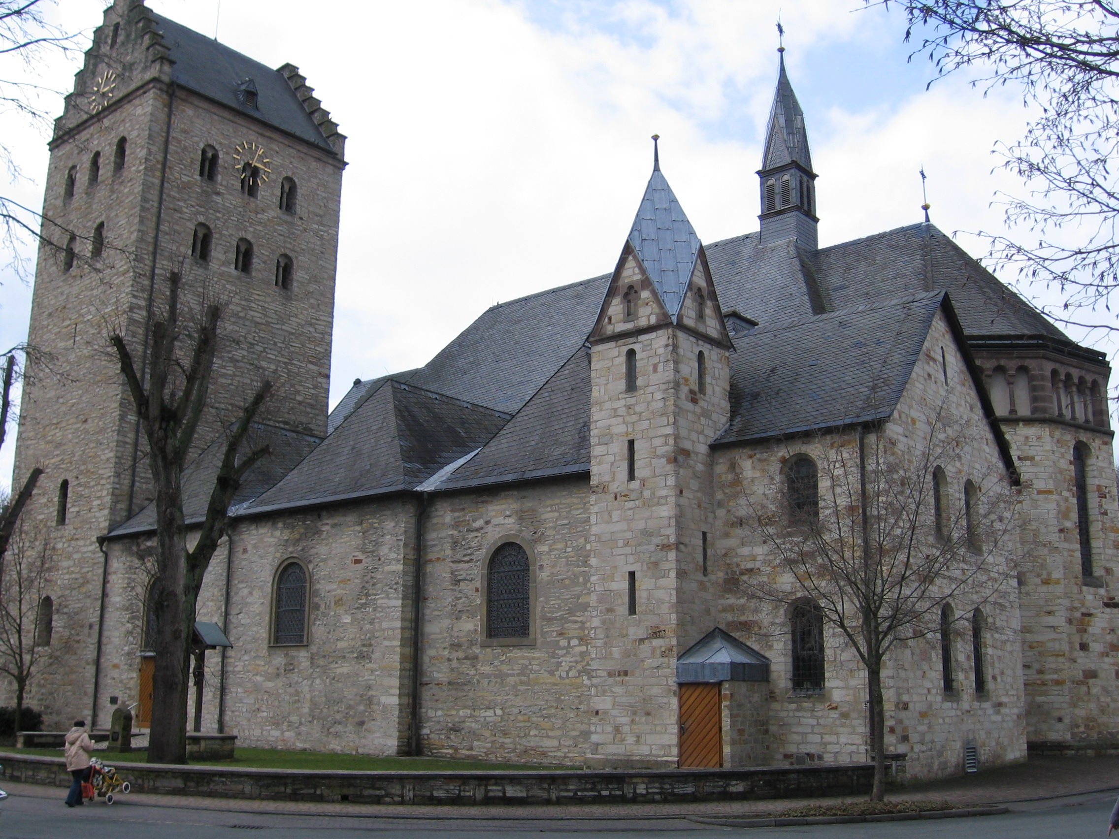 Church of the German village Kirchborchen.